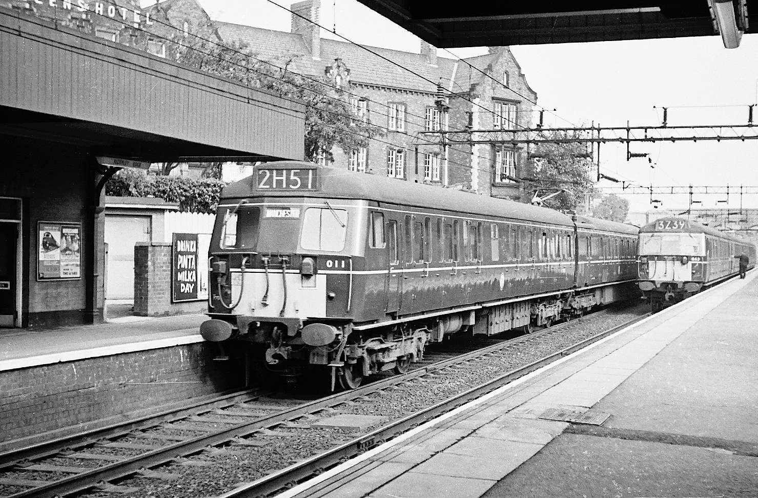 Alderley Edge station with two Class 304s